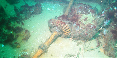 Remnants of the steam winch of the Paul Palmer, shipwrecked in what is now the Stellwagen Bank National Marine Sanctuary in 1902.